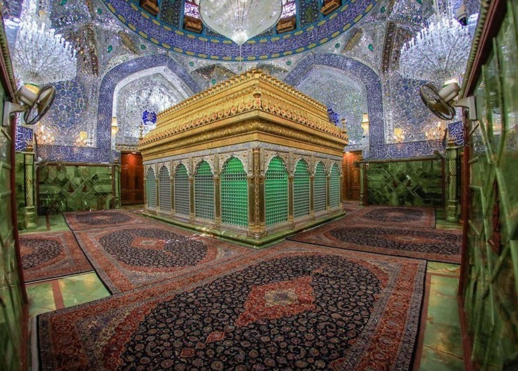 Zarih of Imam Ali Mosque